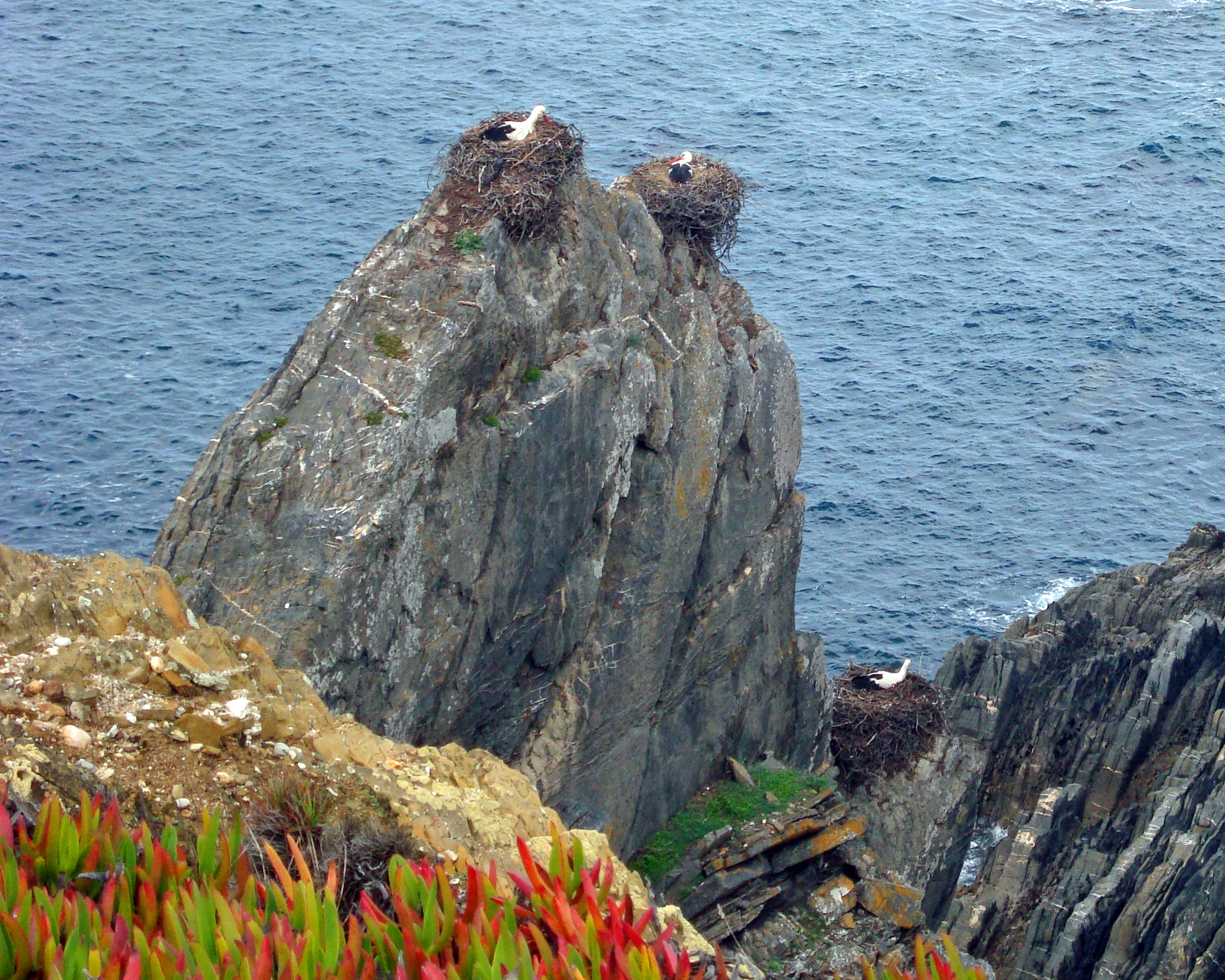 White storks (Ciconia ciconia) at Cabo Sardão, Portugal.